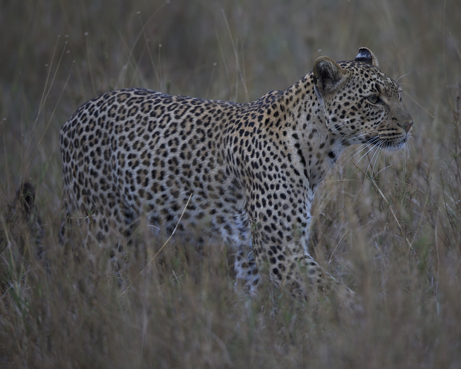 Female leopard patrolling her territory African Leopard Panthera pardus pardus Central Serengeti 5th. September 2012 CF2P3132